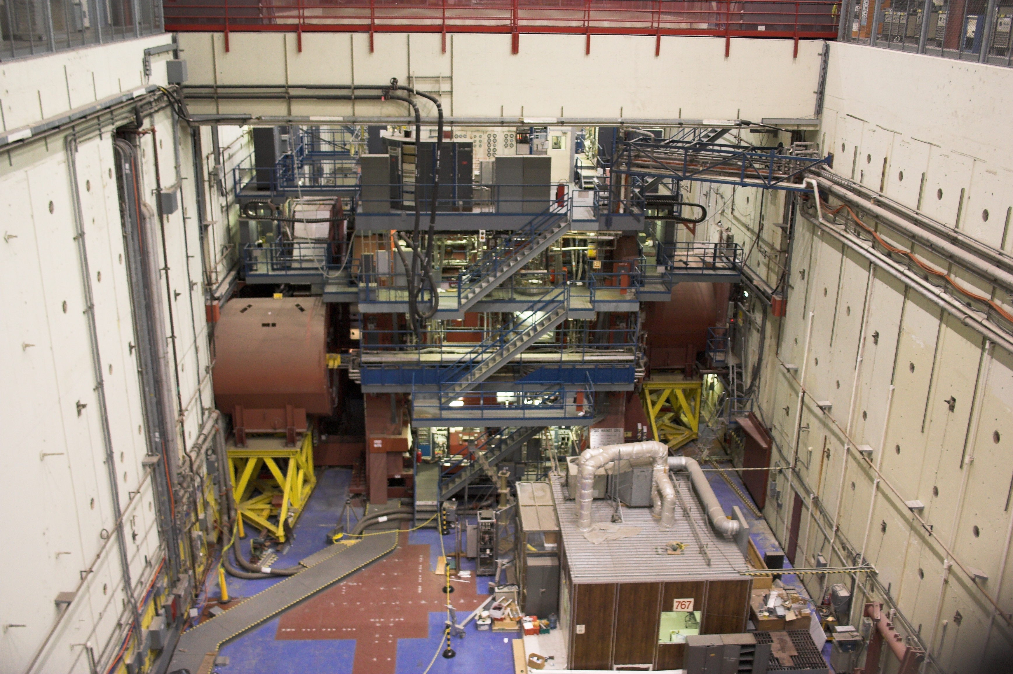 A view into the pit housing SLAC's largest detector.